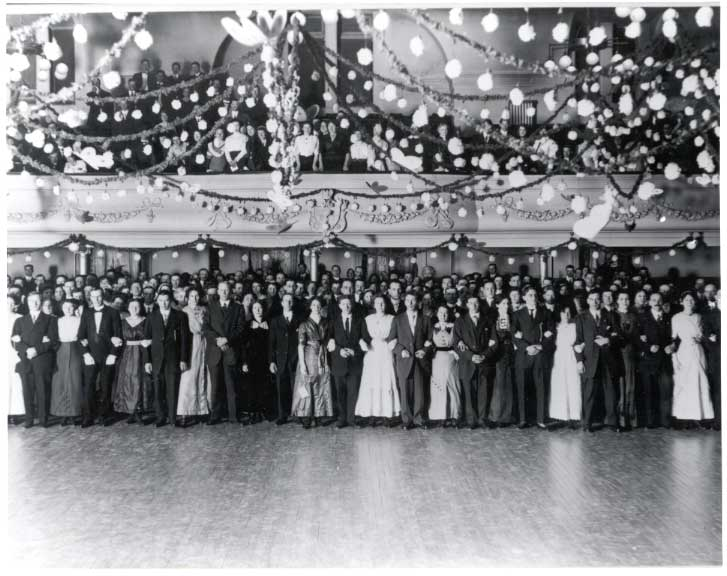 1920 ball held in gingerbread City Hall of Regina shows uses which the old city hall had before other large reception areas existed in the city.